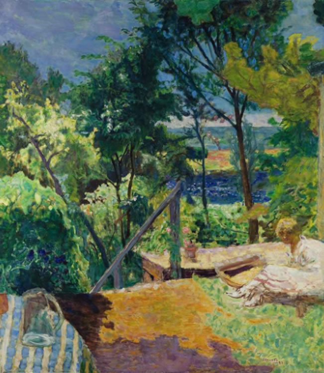 Painting by Pierre Bonnard